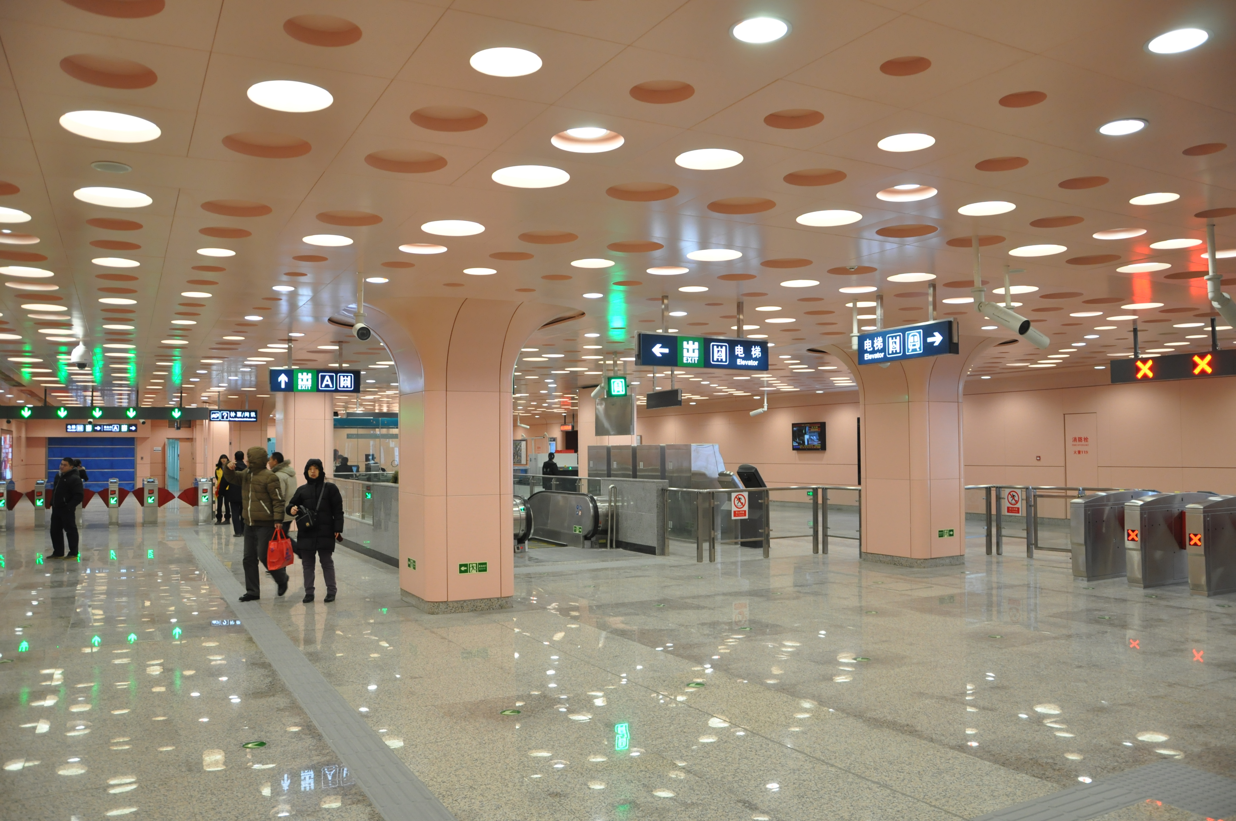 Hall of Dahongmen station, Line 10, Beijing Subway